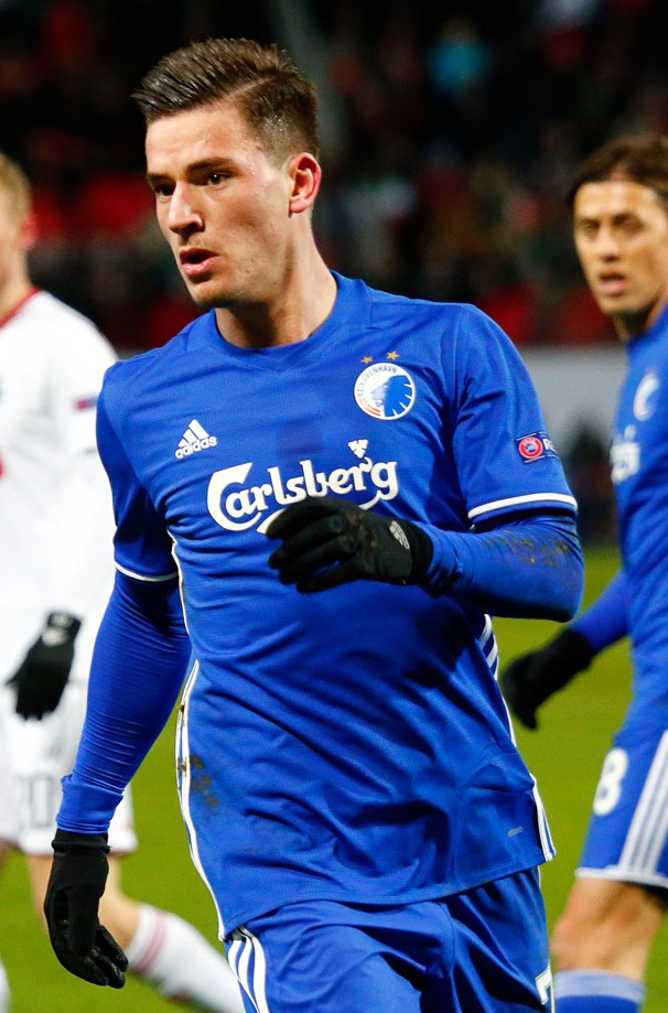 Benjamin Verbič